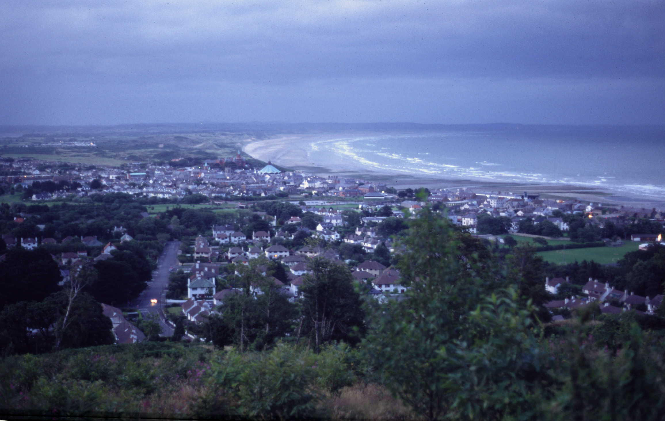 The town of Newcastle in County Down, Northern Ireland, seen from the slopes of Slieve Donard, July 1992.